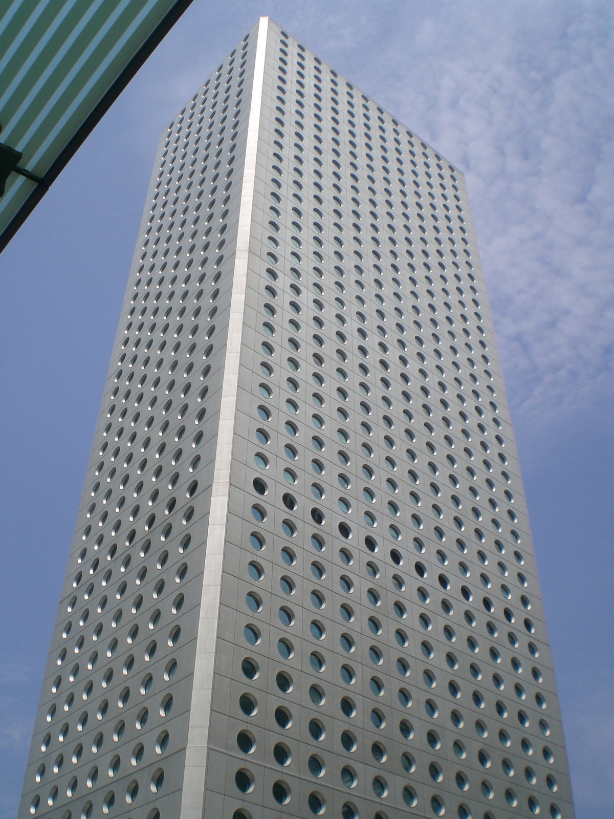 Author= Kwanyatsw 怡和大廈 (Jardine House)位於zh:香港zh:中環zh:康樂廣場1號，樓高52層(178.5米)。